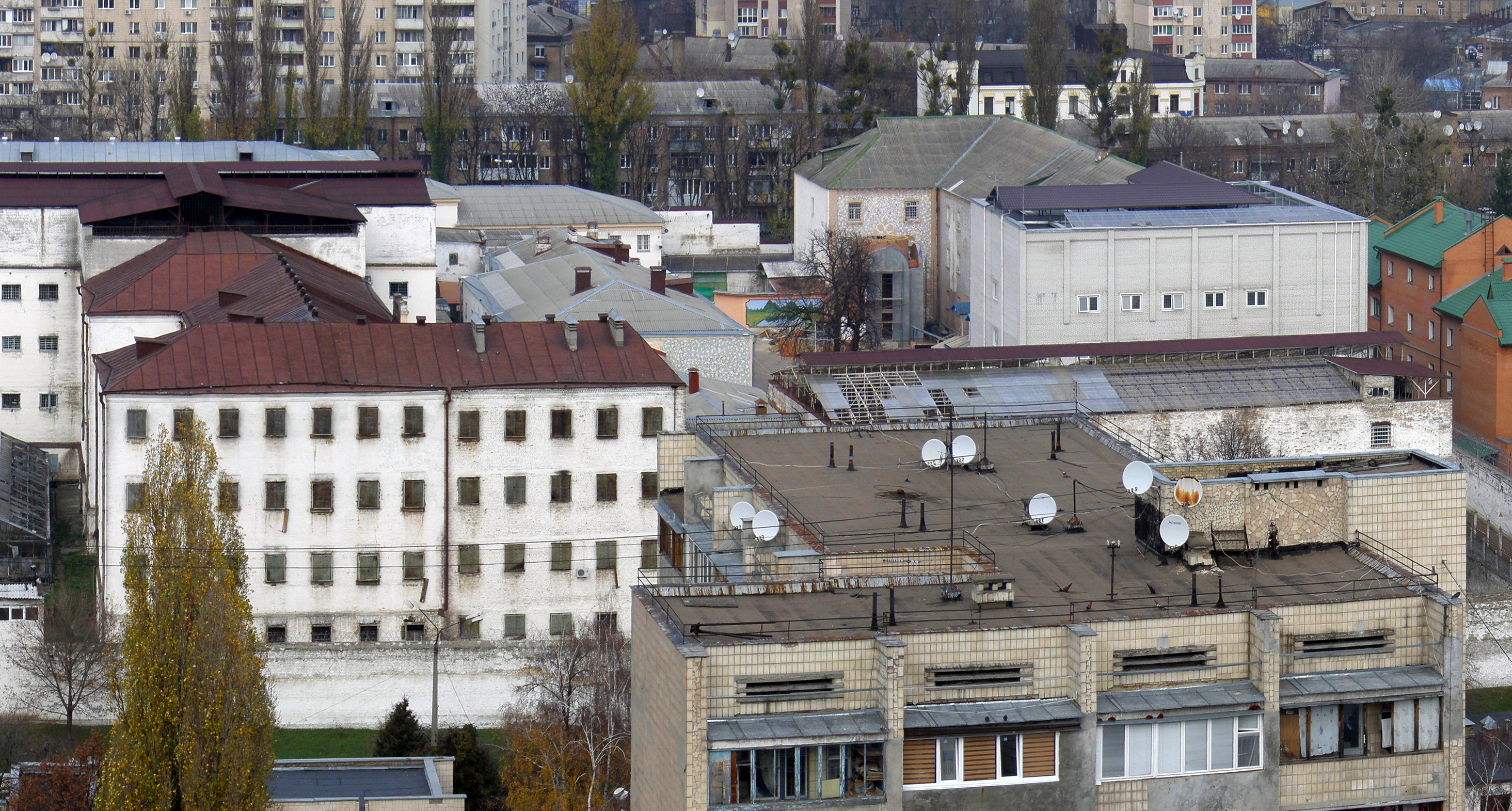 SIZO prison, cropped from File:Лукьяновский СИЗО.jpg